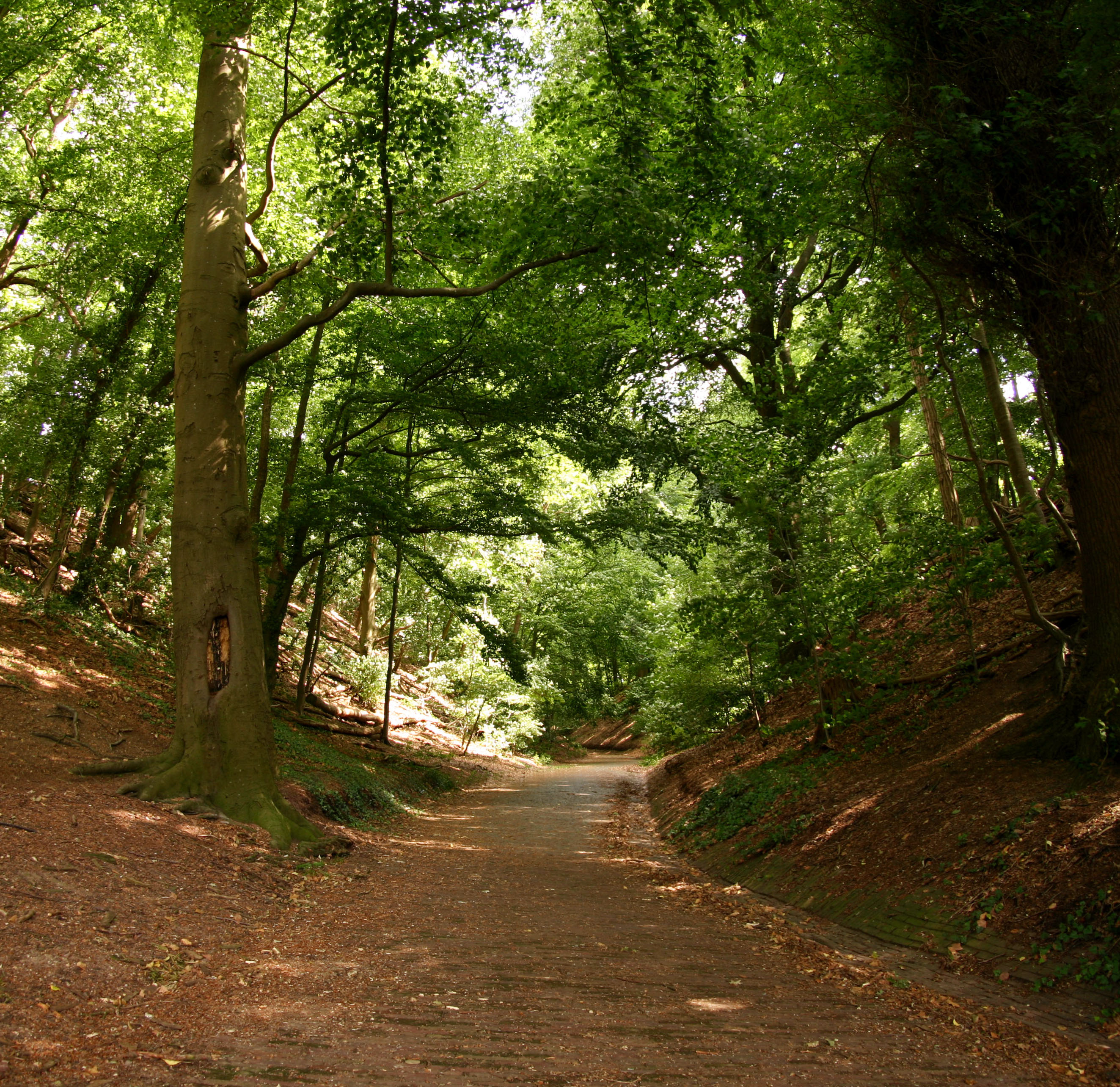 Hollow way in Wageningen, The Netherlands.